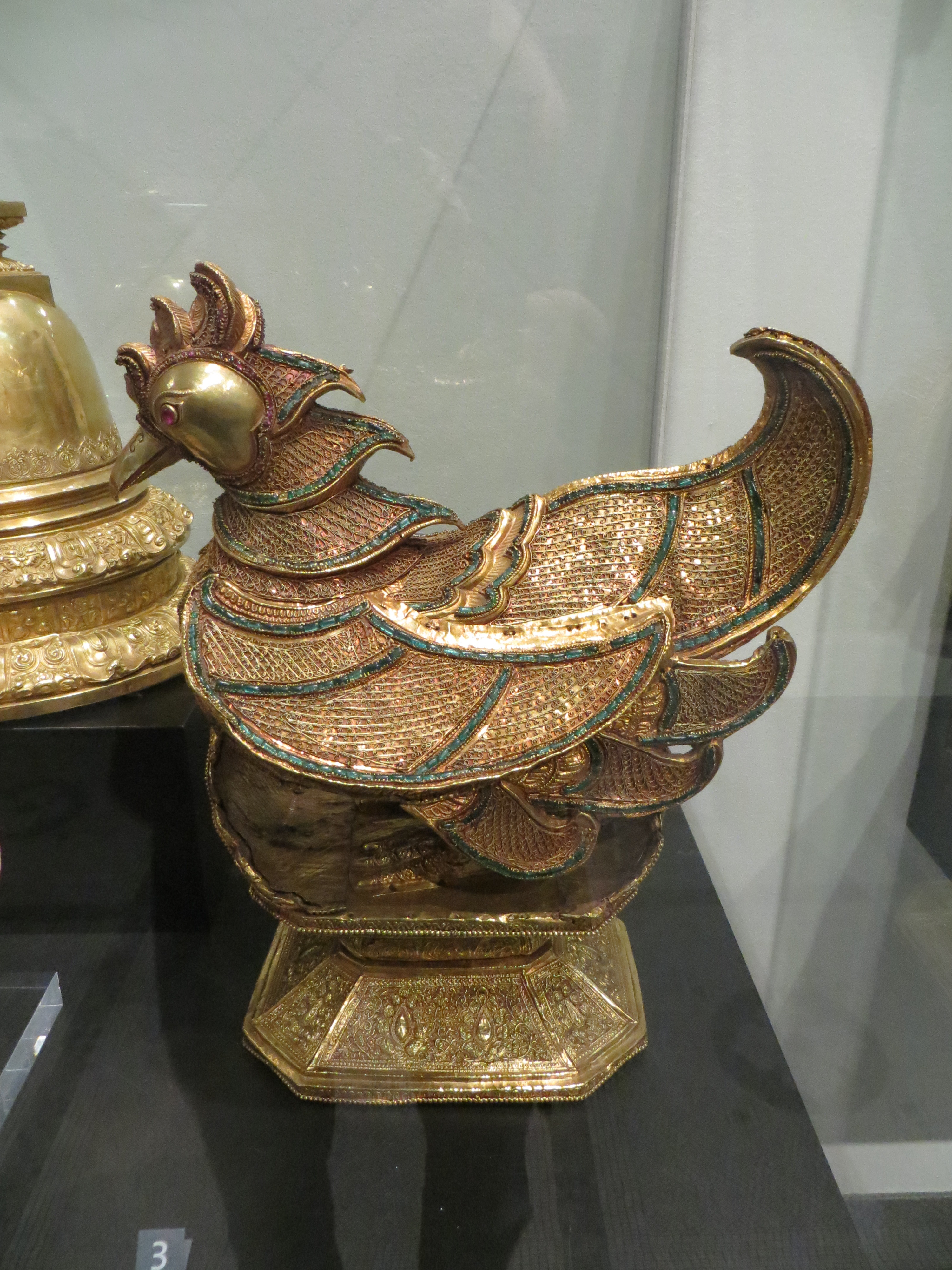 This gold and jewelled container once formed part of the regalia of King Thibaw, the last Burmese king (r.1878-1885). The karaweik, a mythical bird, is a symbol of longevity. The container was used at the royal palace at Mandalay as part of a betel paraphernalia set. Betel leaves, used to wrap the blend of areca-nut shavings, lime and spices, were stored in the karaweik container. The regalia was part of the material requisitioned as indemnity at the end of the third Burmese war in 1885. It was later placed under the custodianship of the Victoria and Albert Museum. This object was given to the Museum by the Government and people of Burma in generous recognition of the Victoria and Albert Museum's safekeeping of the Burmese royal regalia from 1886 to 1964. Dimensions - Height: 41.5 cm, Length: 35.5 cm, Width: 18 cm